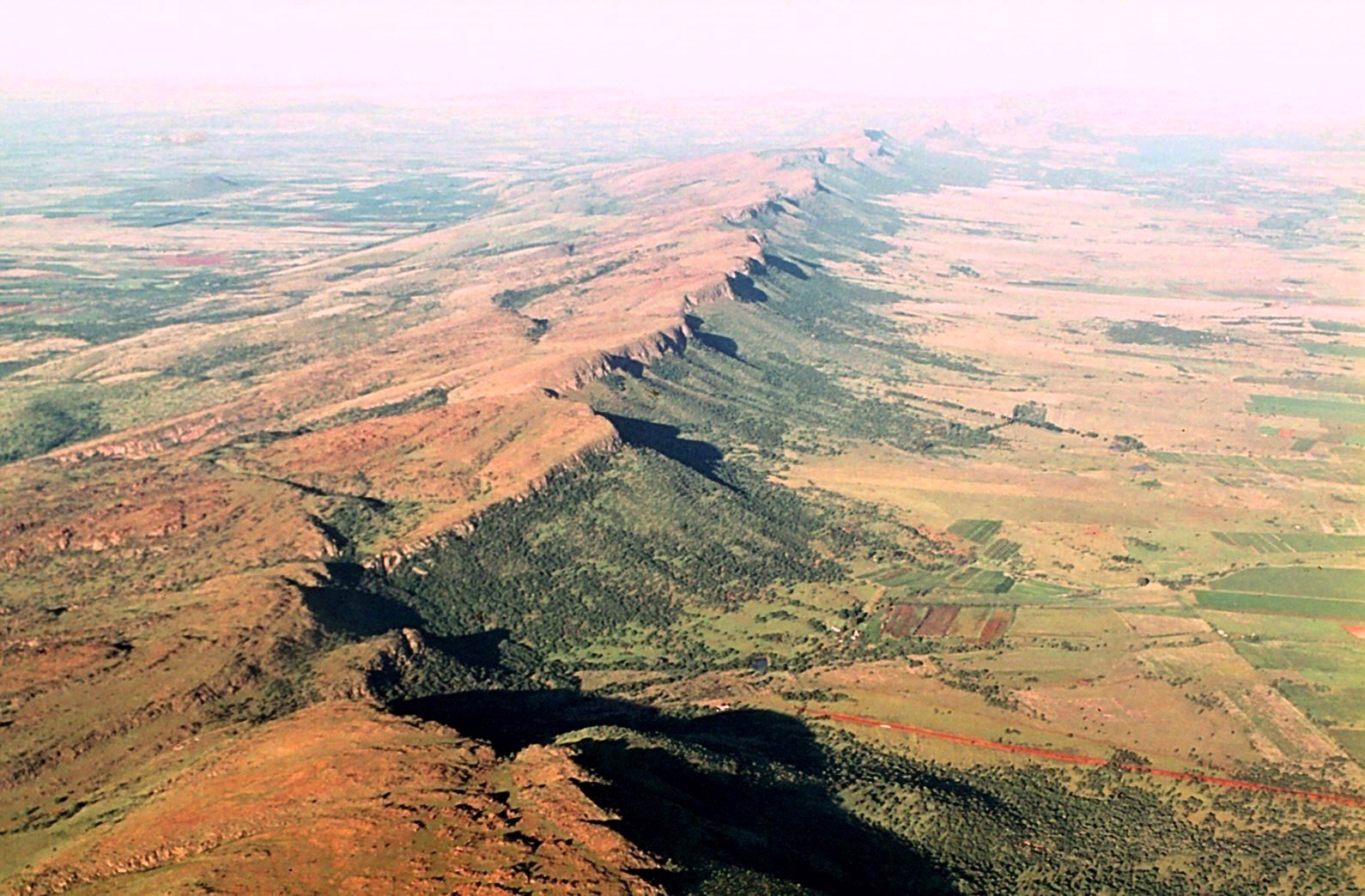 Magaliesberg Range, Transvaal, South Africa - view east to Hartebeespoort Dam from vicinity of Castle Gorge (Spike Cramphorn)